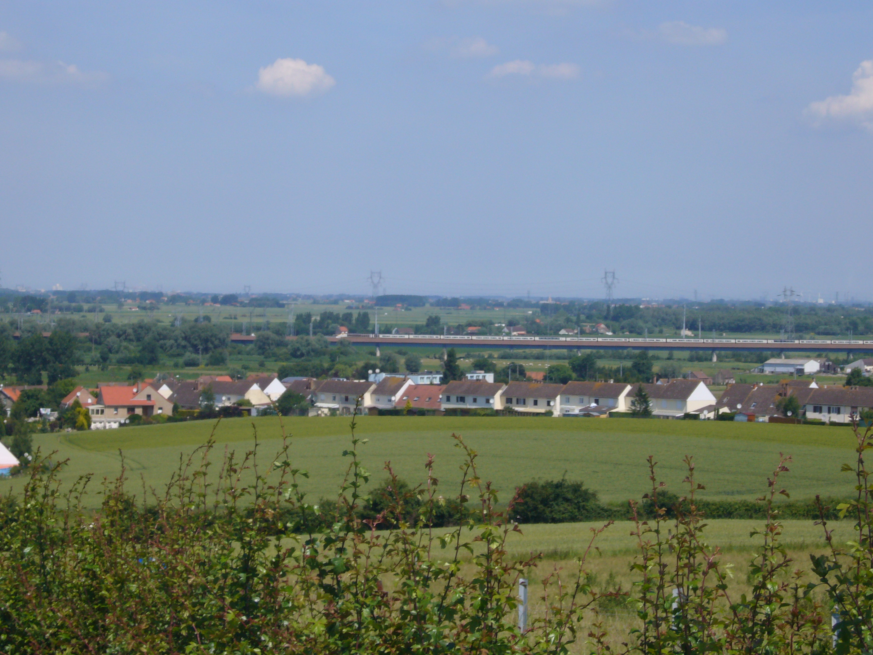 Haute-Colme bridge